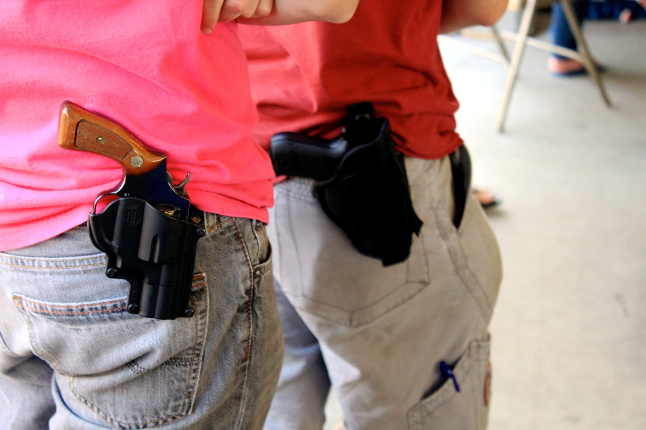 Open carry at a Free State Project meeting in Lancaster, New Hampshire in 2009.